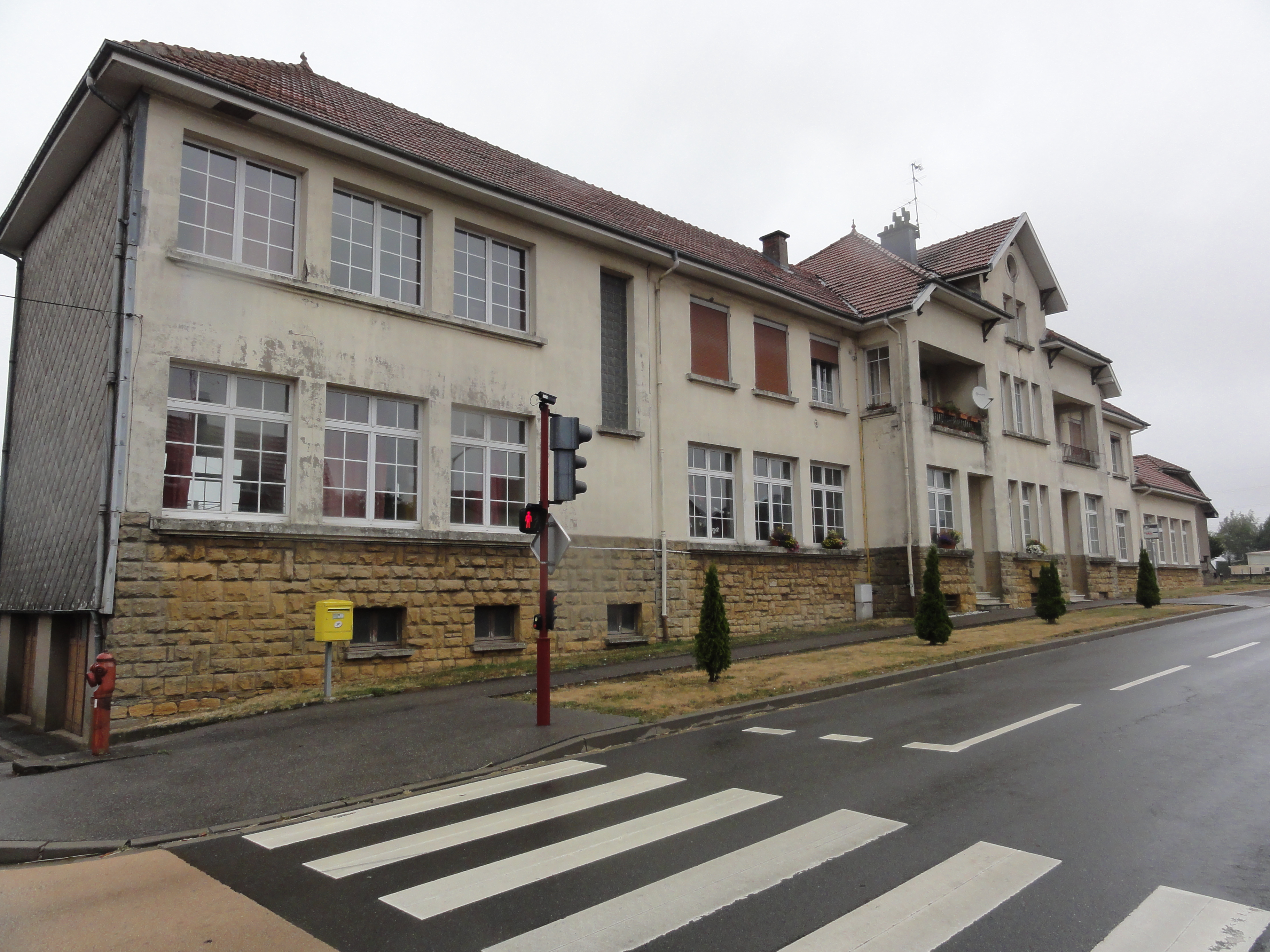 Cutry (Meurthe-et-M.) école